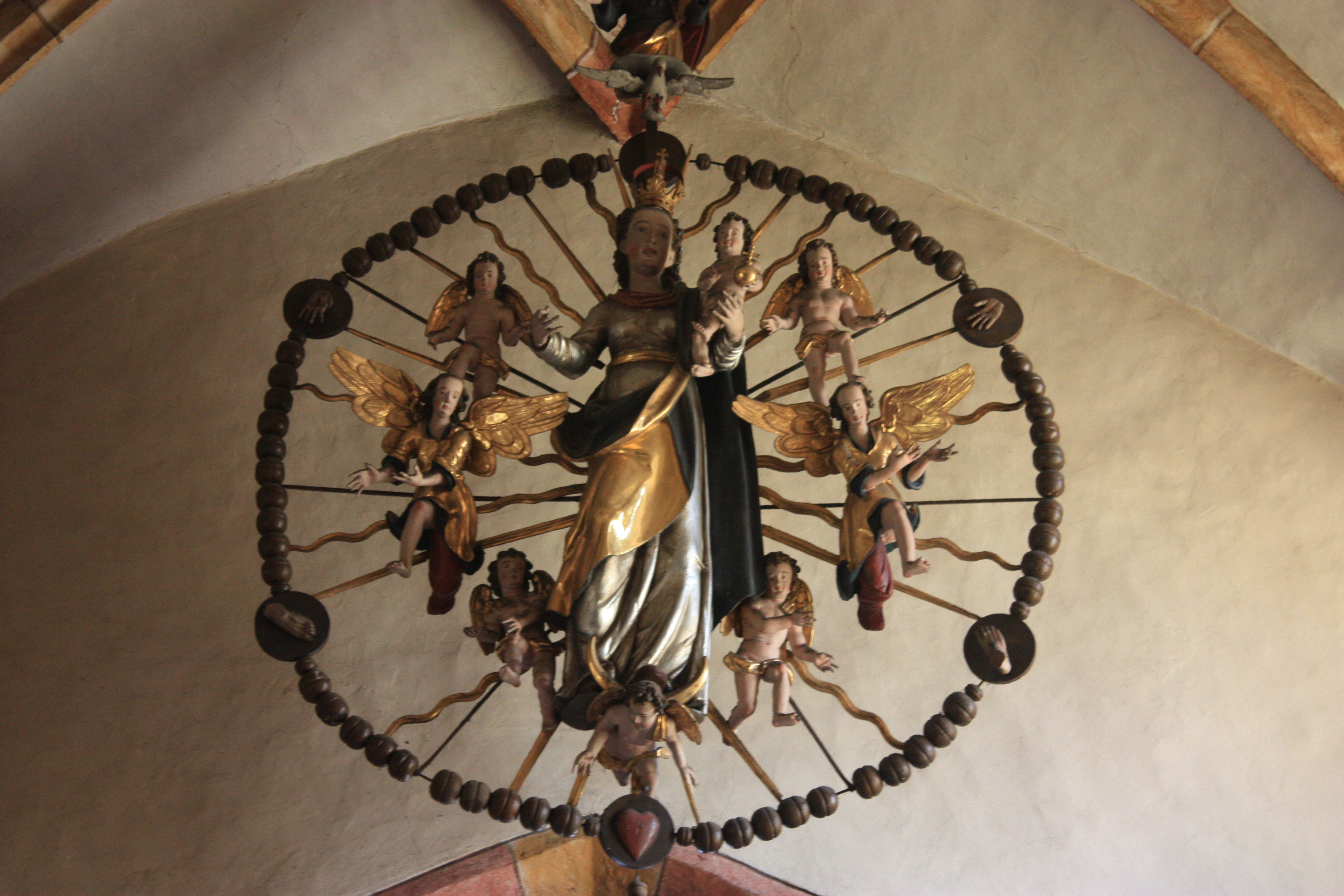 Parish church: Madonna of the Rosary Locality:Thörl-Maglern Community:Arnoldstein